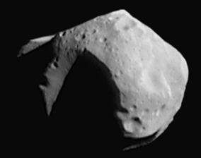 A tightly cropped version of Image:(253) mathilde.jpg, for use in Template:Asteroid-stub